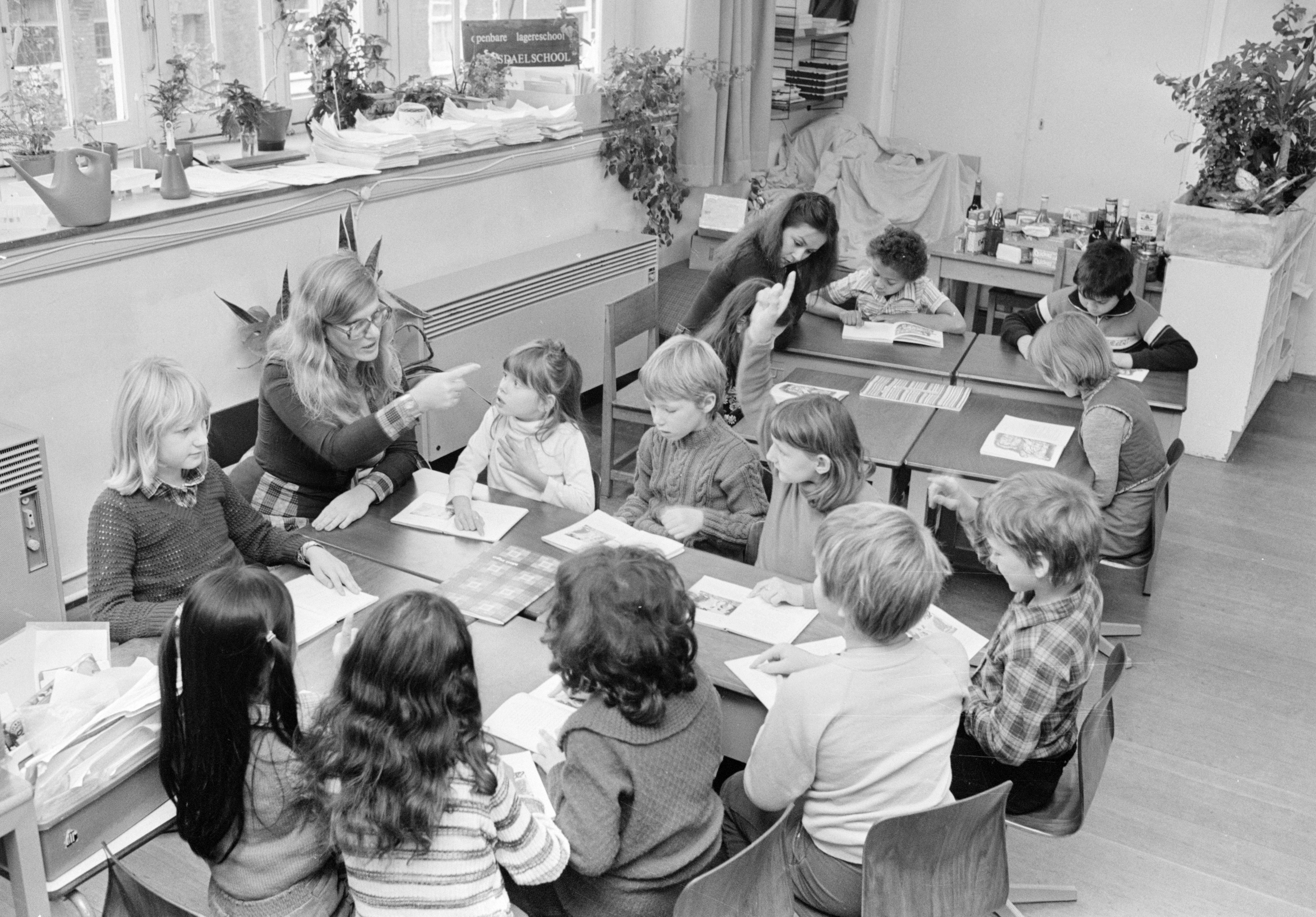 Nationaal Archief / Spaarnestad Photo Beschrijving: Schoolklas gefotografeerd in opdracht Ministerie van OenW Datum: 2 november 1979 Vervaardiger: Anefo / Suyk Bestanddeelnummer: 930-5236 URL: Voor meer informatie over het Nationaal Archief: Voor meer foto's uit deze en andere collecties, bezoek onze Beeldbank:, U kunt ons helpen onze kennis van de fotocollecties te verrijken door tags en commentaren toe te voegen. Herkent u mensen of locaties of heeft u een bijzonder verhaal te vertellen bij één van de foto's, laat dan een reactie achter (als u ingelogd bent bij Flickr) of stuur een mailtje naar